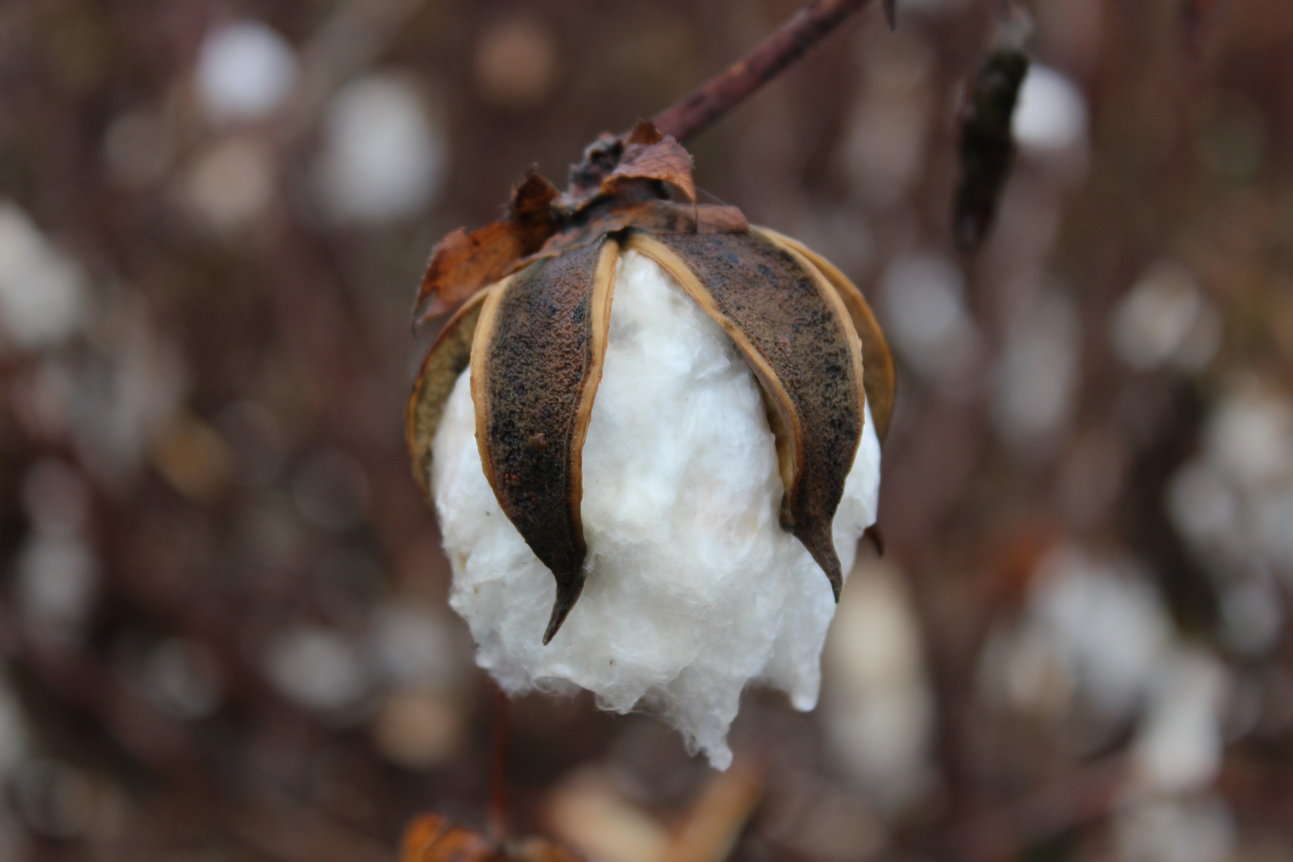 Cotton boll, nearly ready for harvest, by Michael Bass-Deschenes. Richland County, South Carolina.